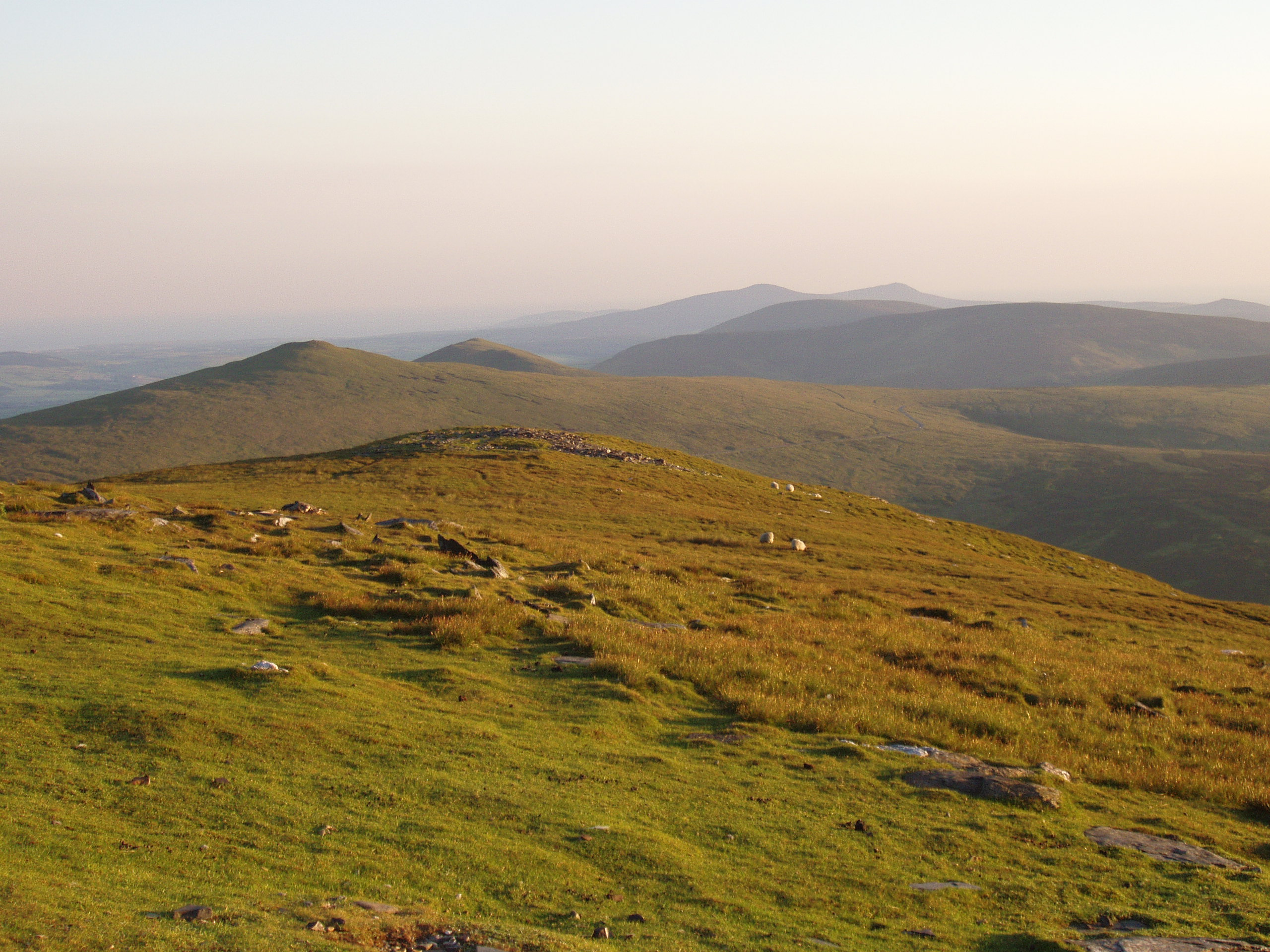 View from the top of Snaefell Mountain looking southwestward showing the mountainous terrain along the axis of the Isle of Man.